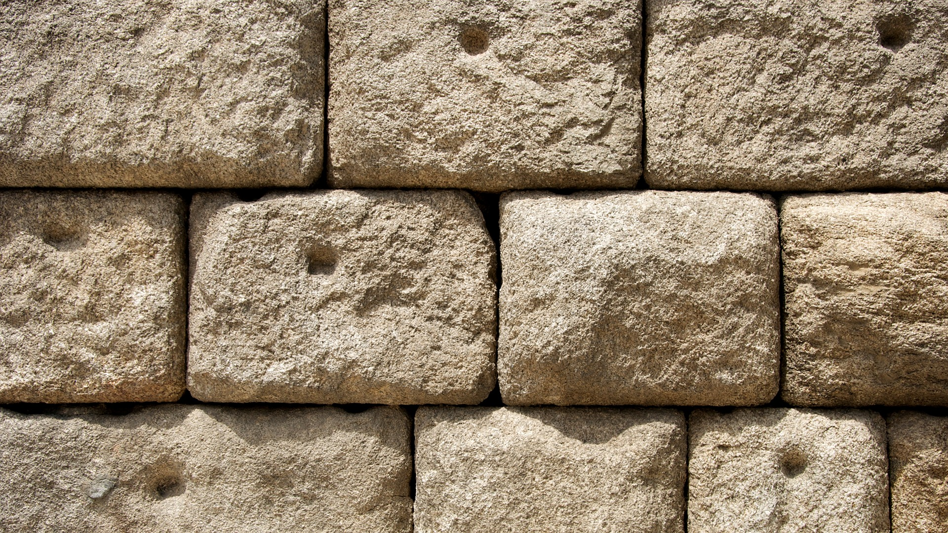 Masonry - Aqueduct of Segovia.